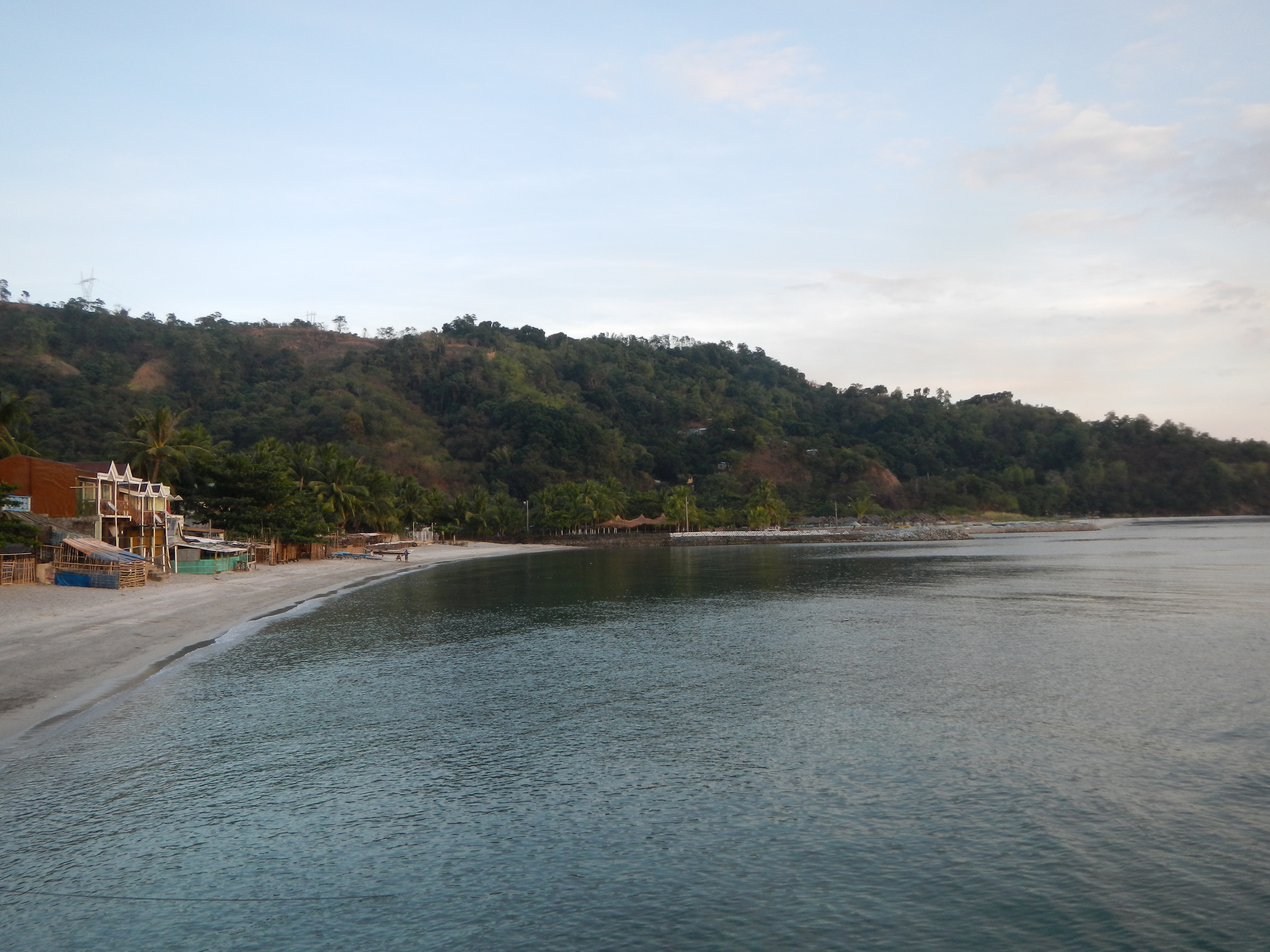 Driftwood beach, Subic, Zambales[1]Subic is a municipality in the province of Zambales, located along the northern coast of Subic Bay in the Philippines.[2]